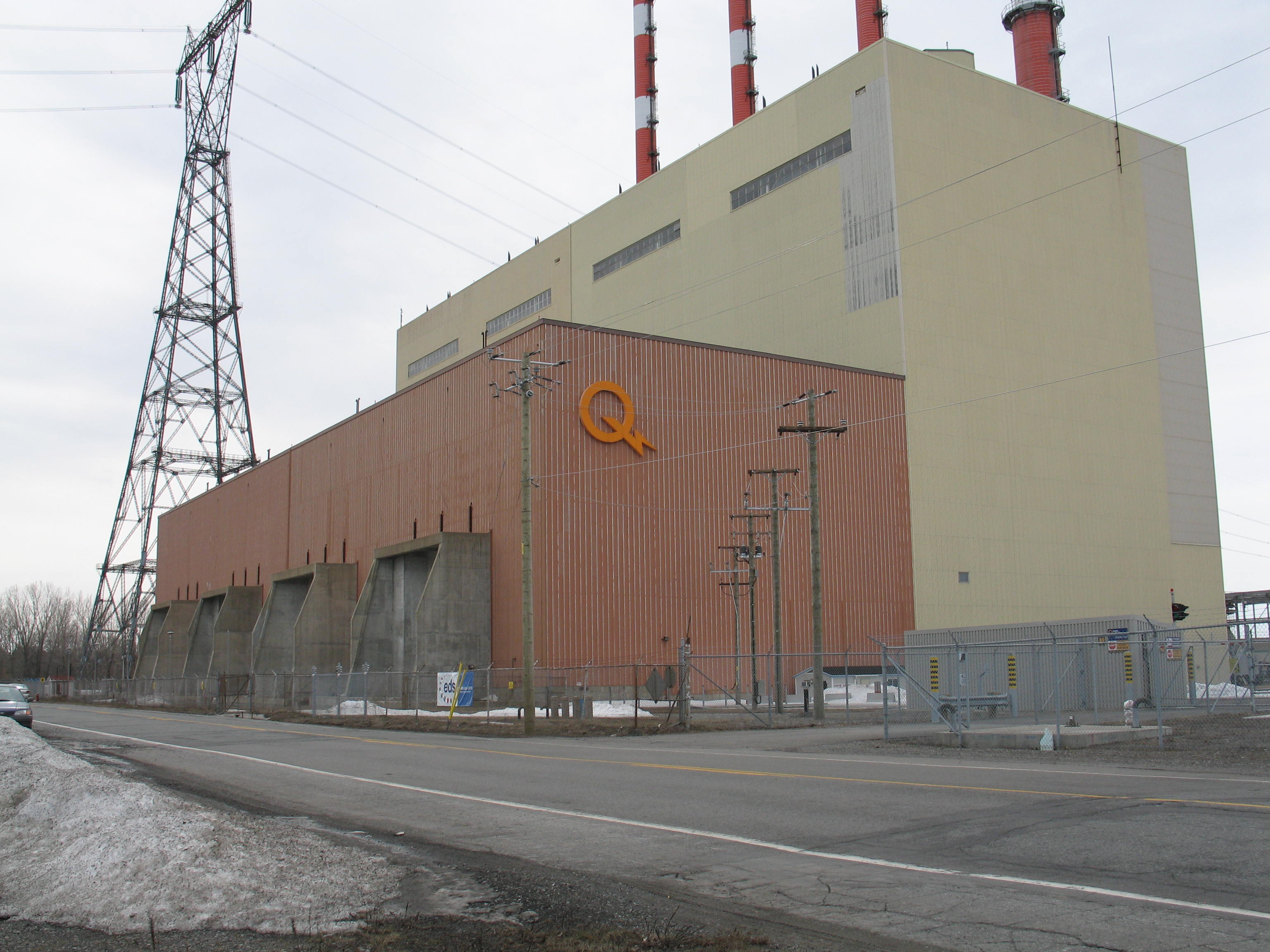 The Tracy Thermal Generating Station in Quebec.